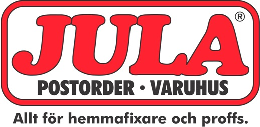 Jula Postorder AB logotype. © Jula Postorder AB. Används i artikeln om Jula Postorder AB.